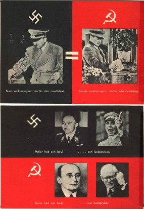 A document from the collection of Henri Max Corwin, depicting the Propaganda methods in the communist Russia and in the national-socialist Germany.